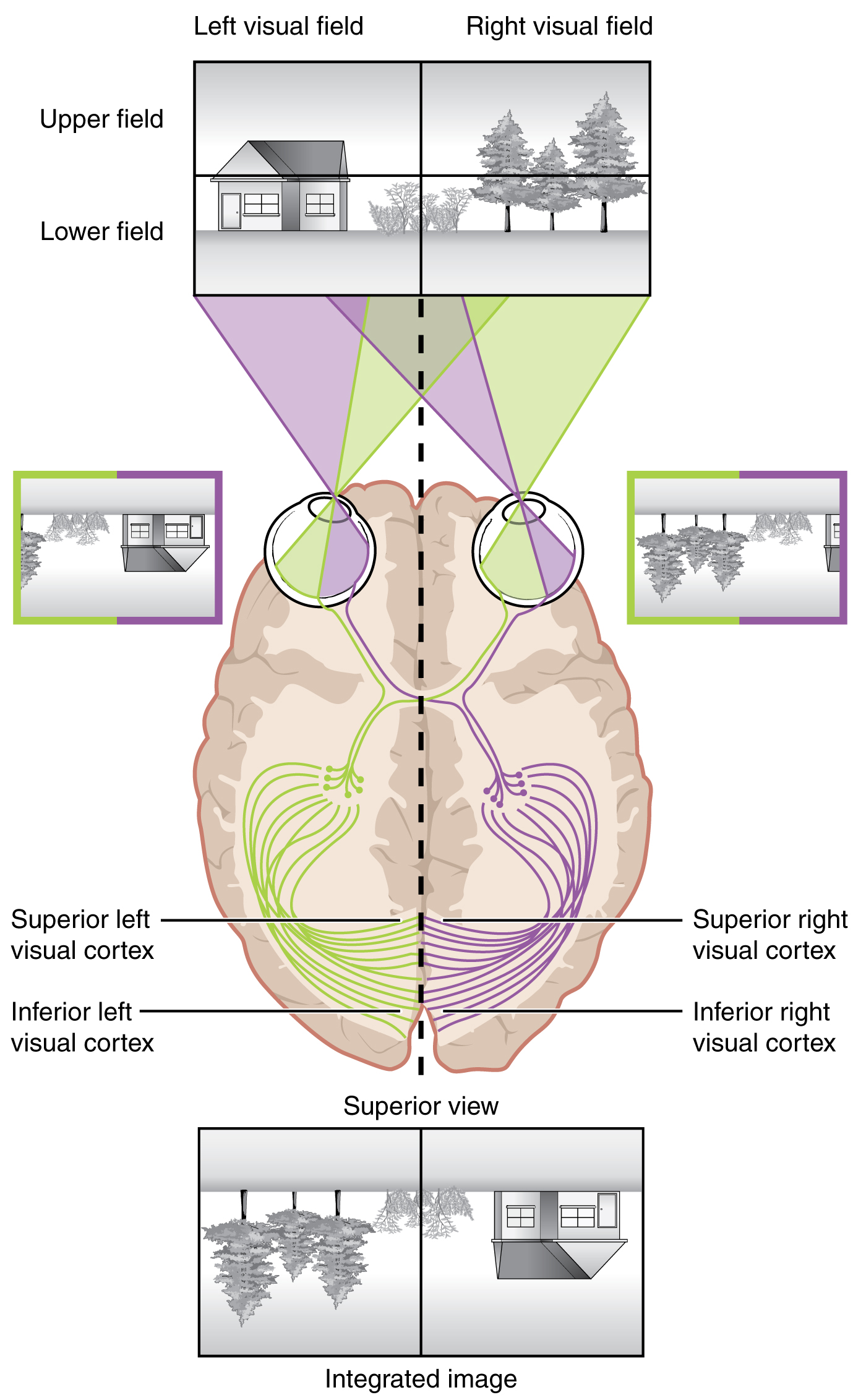 Illustration from Anatomy & Physiology, Connexions Web site. Jun 19, 2013.